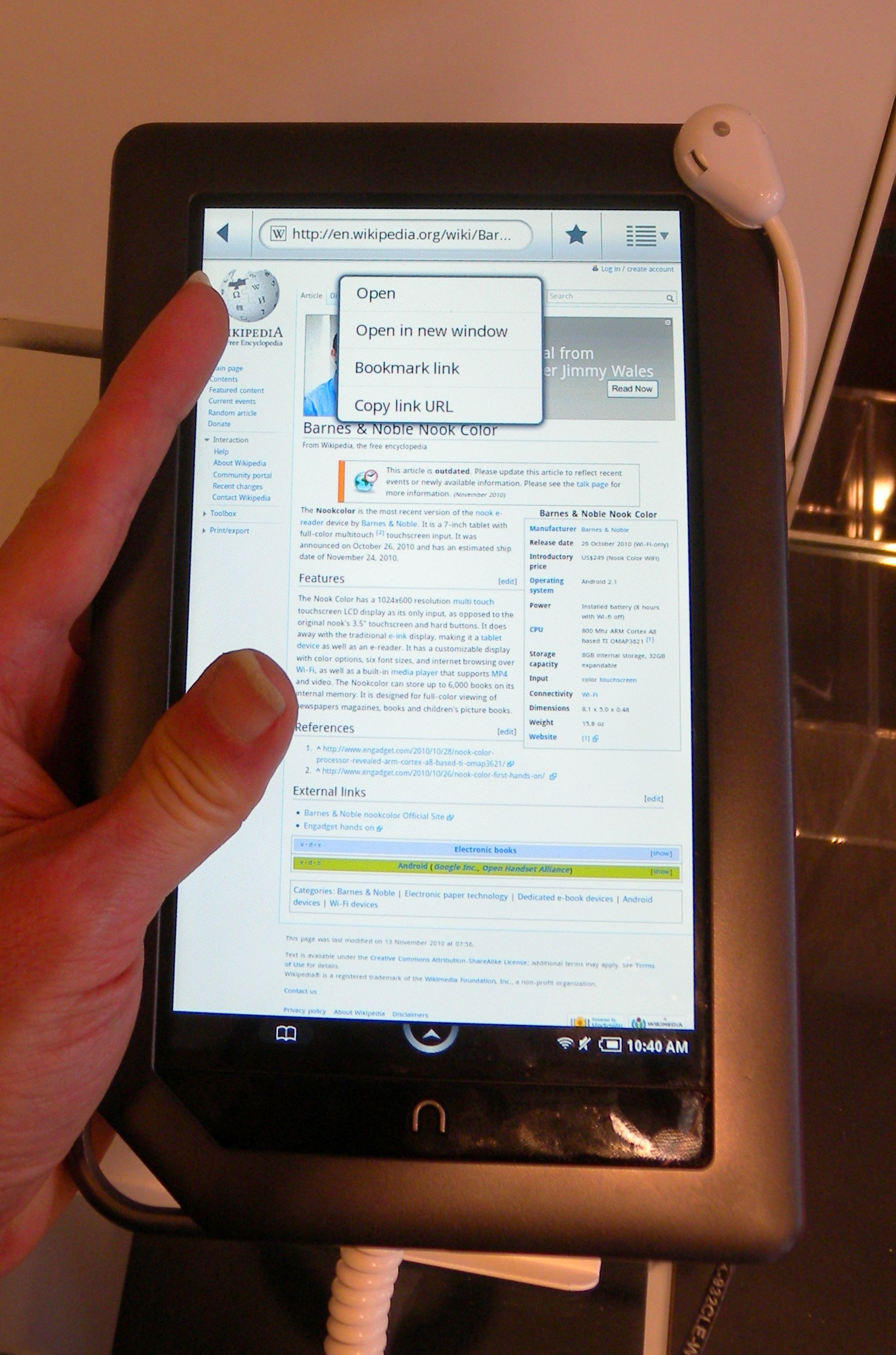 Cropped version of Nook picture showing its article in Wikipedia, tethered in a B&N store to allow demo without theft.